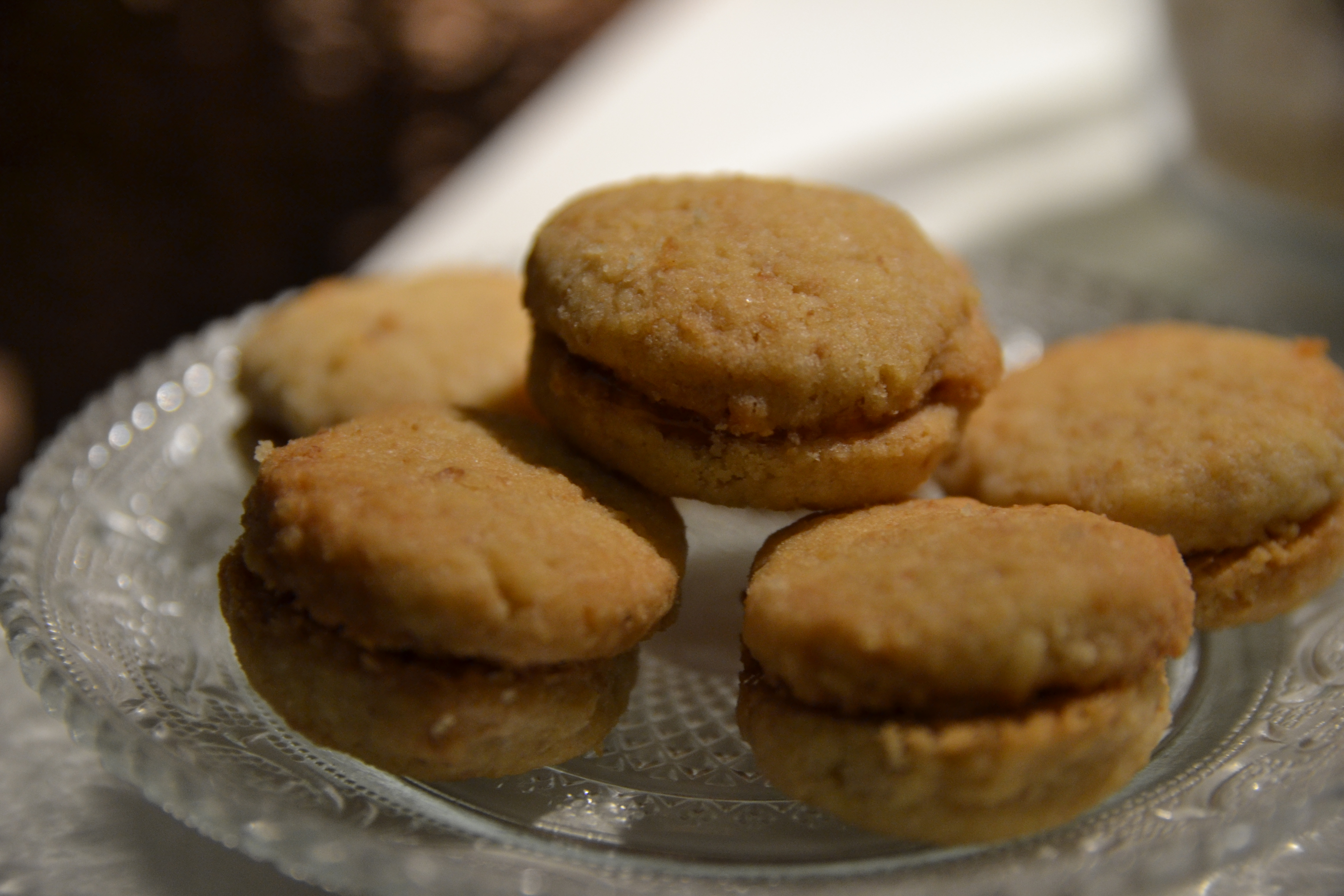 Grancle - old fashioned desert from Serbia